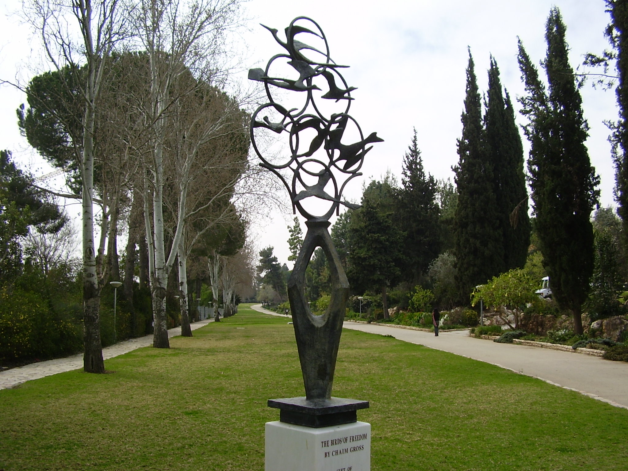 \"birds of freedom\" in giv\'at ram campus, jerusalem